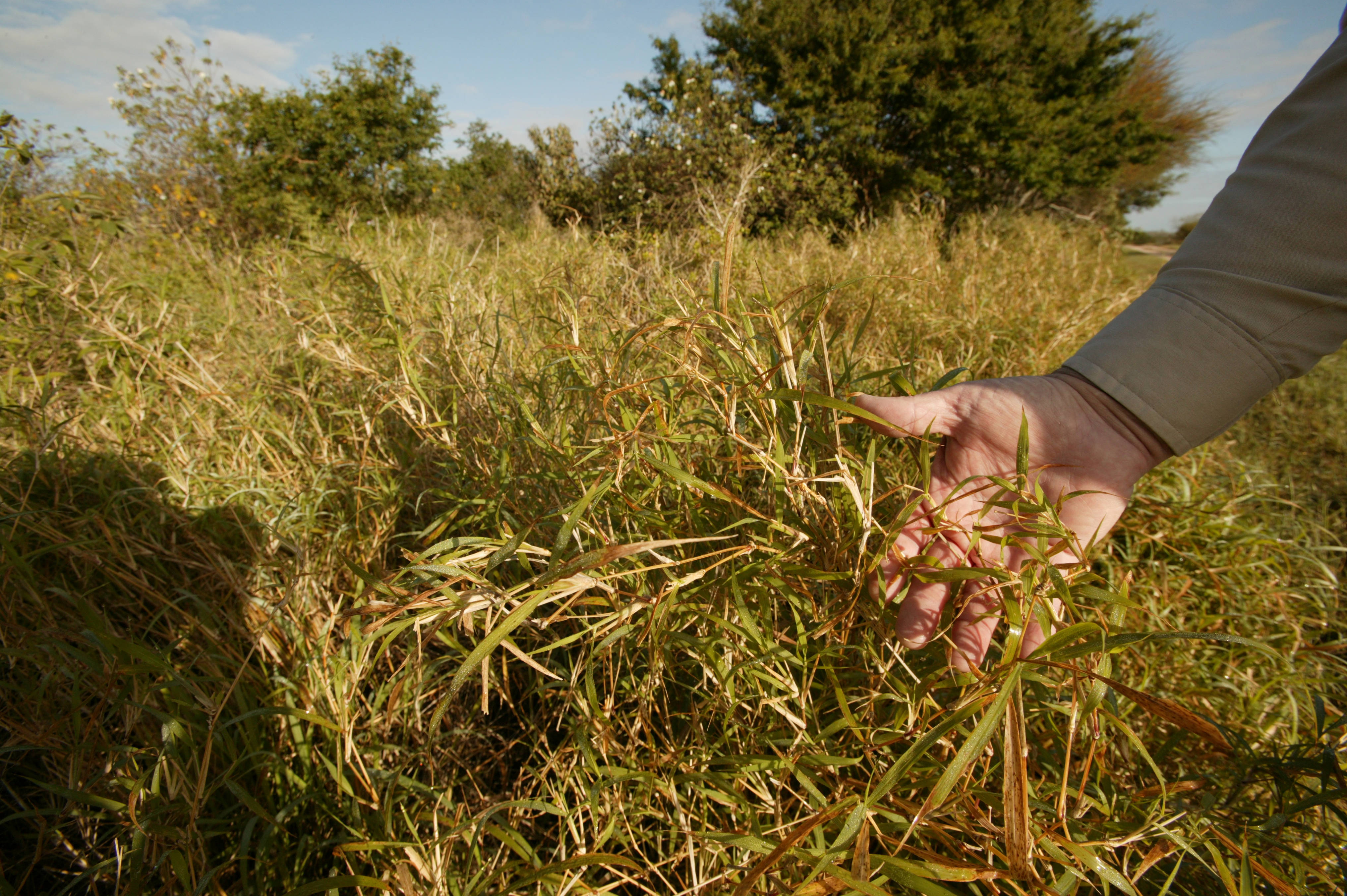 The buffelgrass invasion has forever changed the southwestern desert ecosystems by crowding out native plants and fueling frequent and devastating fires in areas where fires were once rare